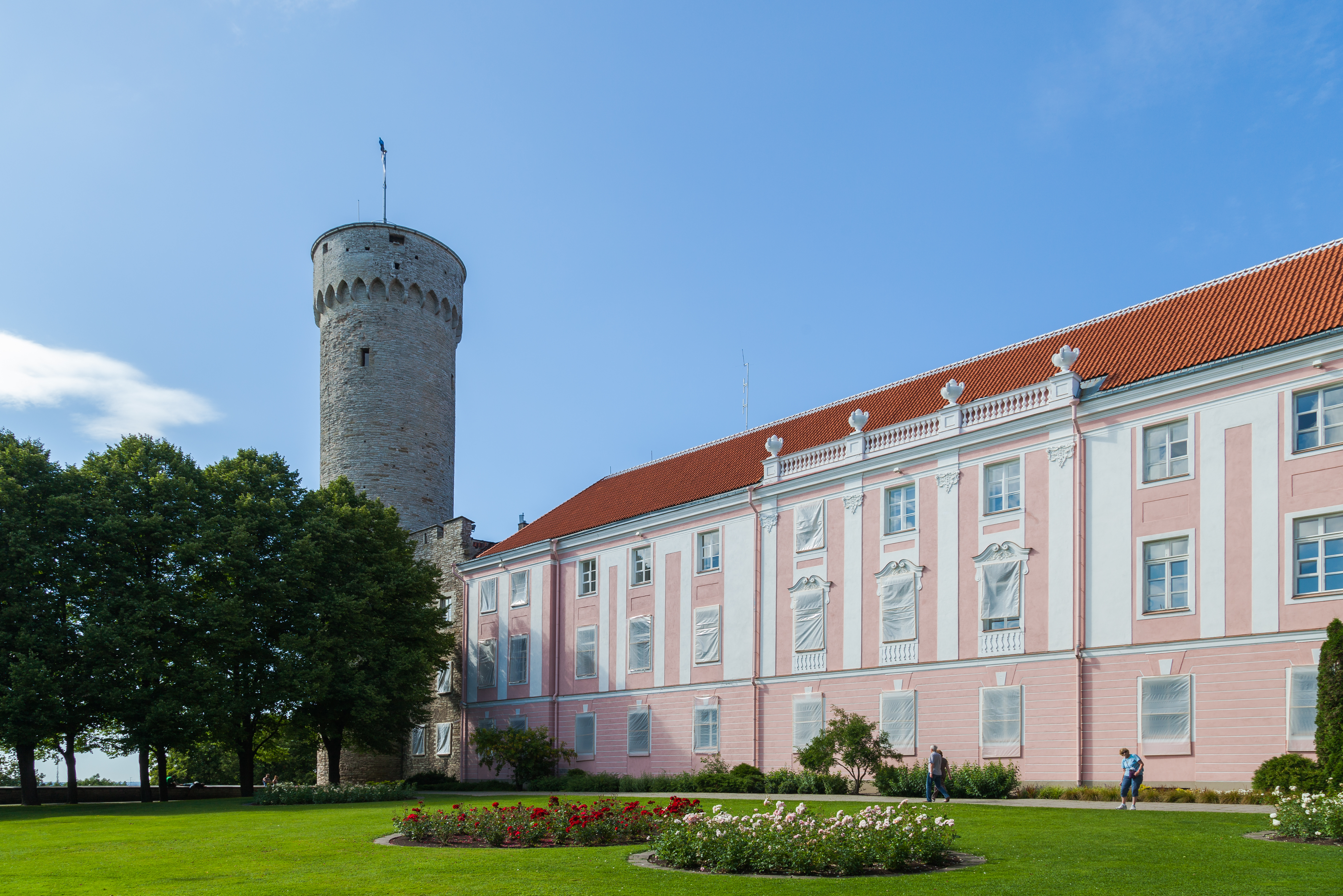 Pikk Hermann, Toompea castle, Tallinn, Estonia